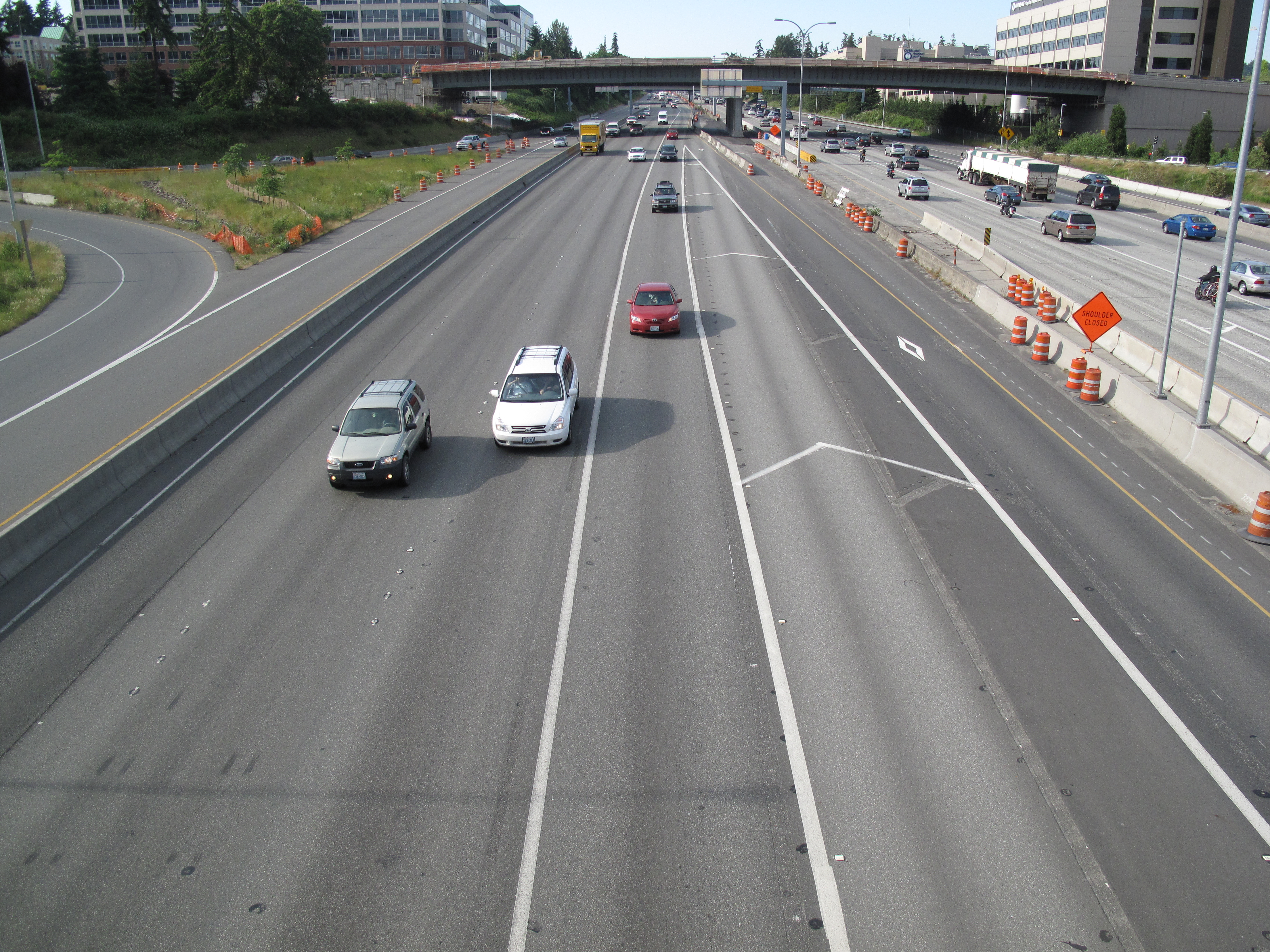 Interstae 405 (I-405) Southbound in Bellevue, Washington as seen from the NE 8th Street overpass.